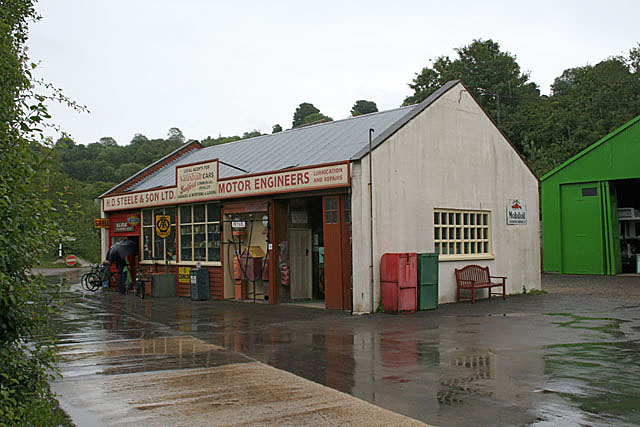 Motor Engineers, Amberley working museum This recreating displays a typical rural business acting as filling station and general repairs facilities for local and passing trade.